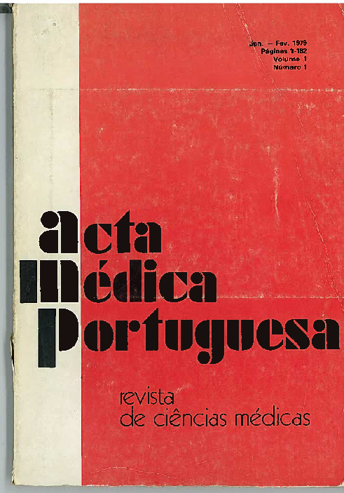 First Cover Page of Acta Medica Portuguesa